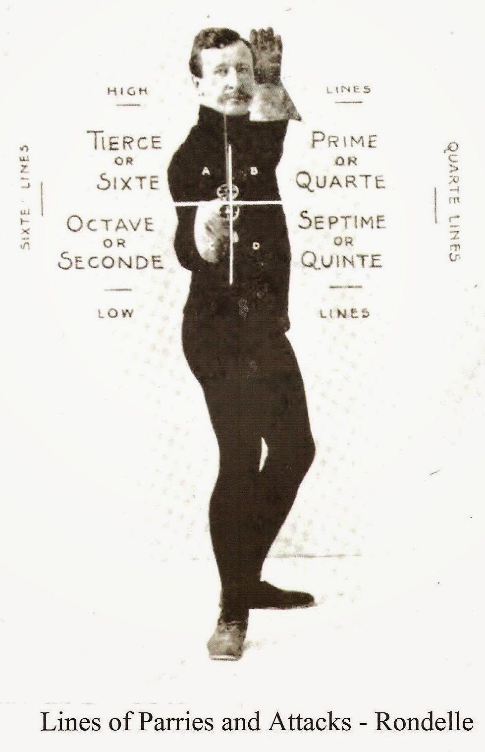 The fencing lines of parry, according to Louis Rondelle